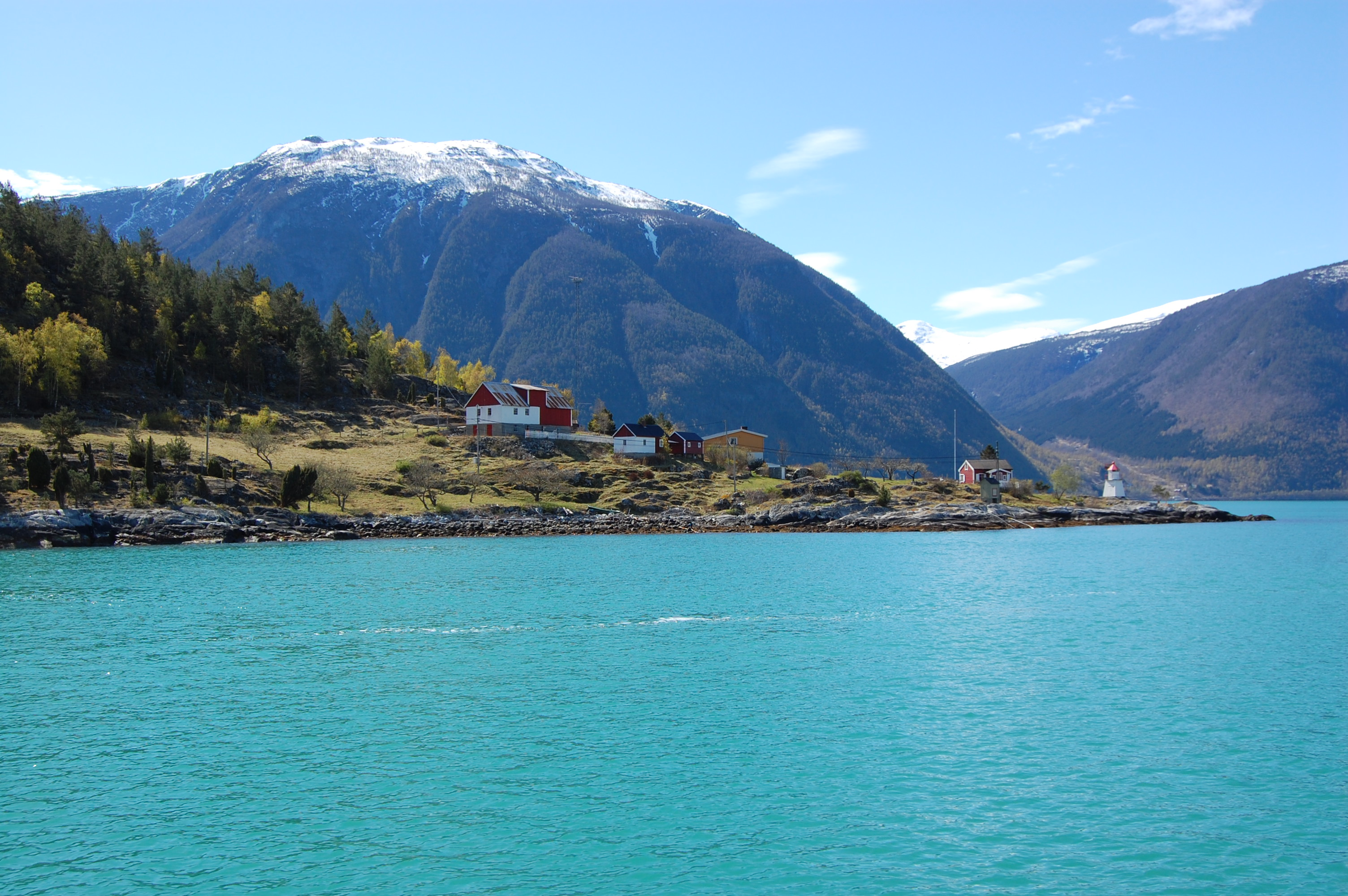 Fodnes, Sogn og Fjordane